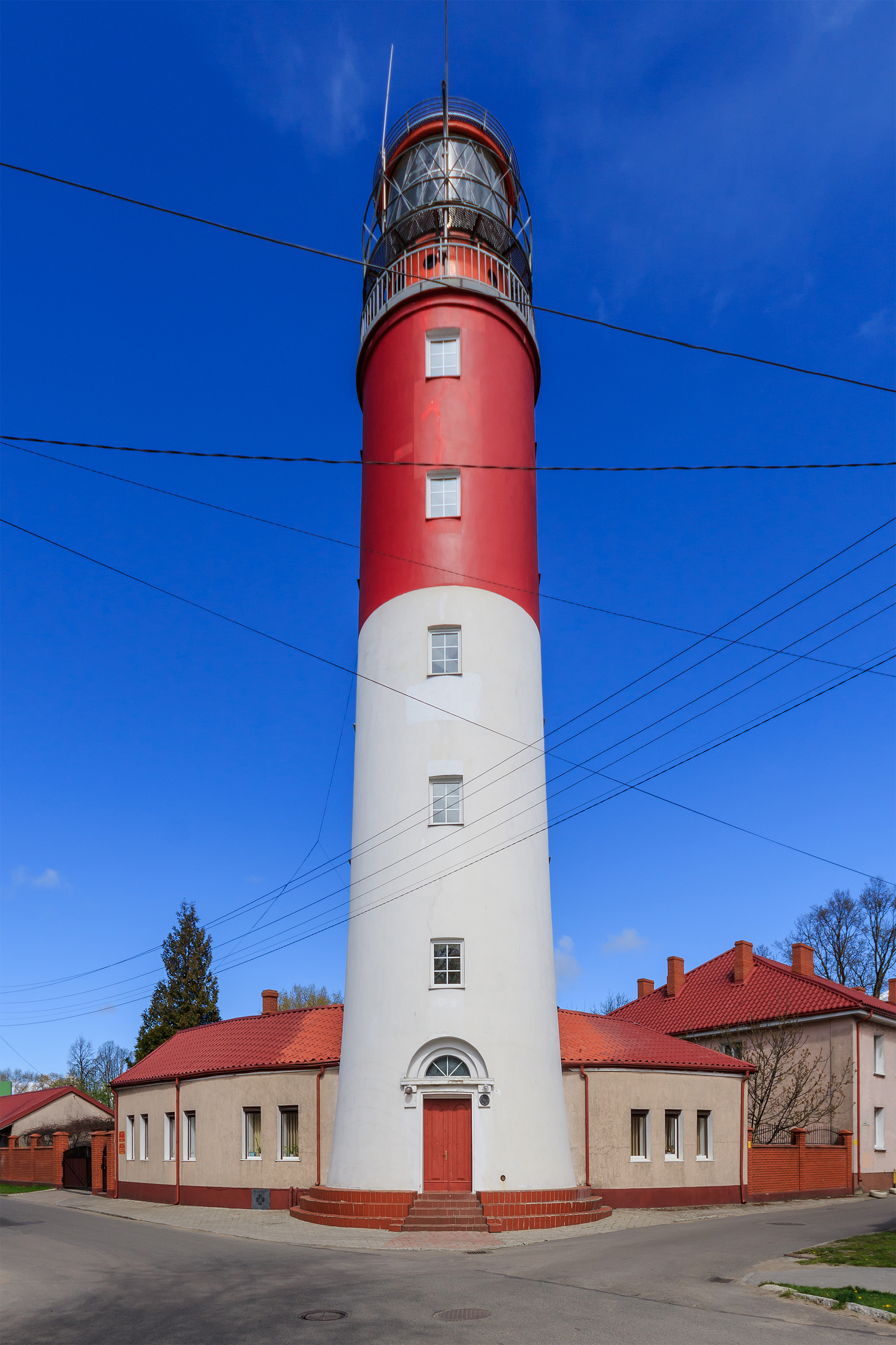 Lighthouse in Baltiysk formerly Pillau / Kaliningrad Oblast (Russia).